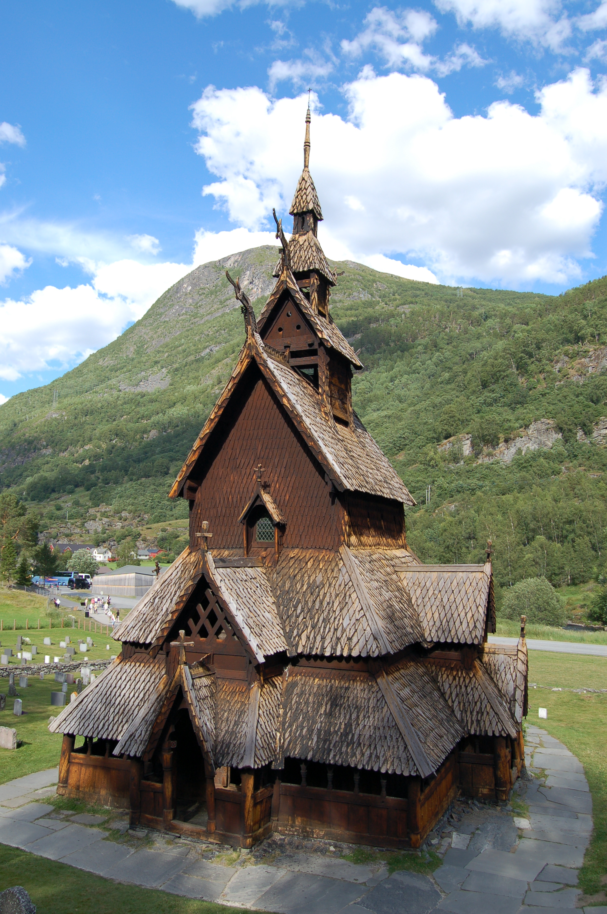 Borgund Stave Church